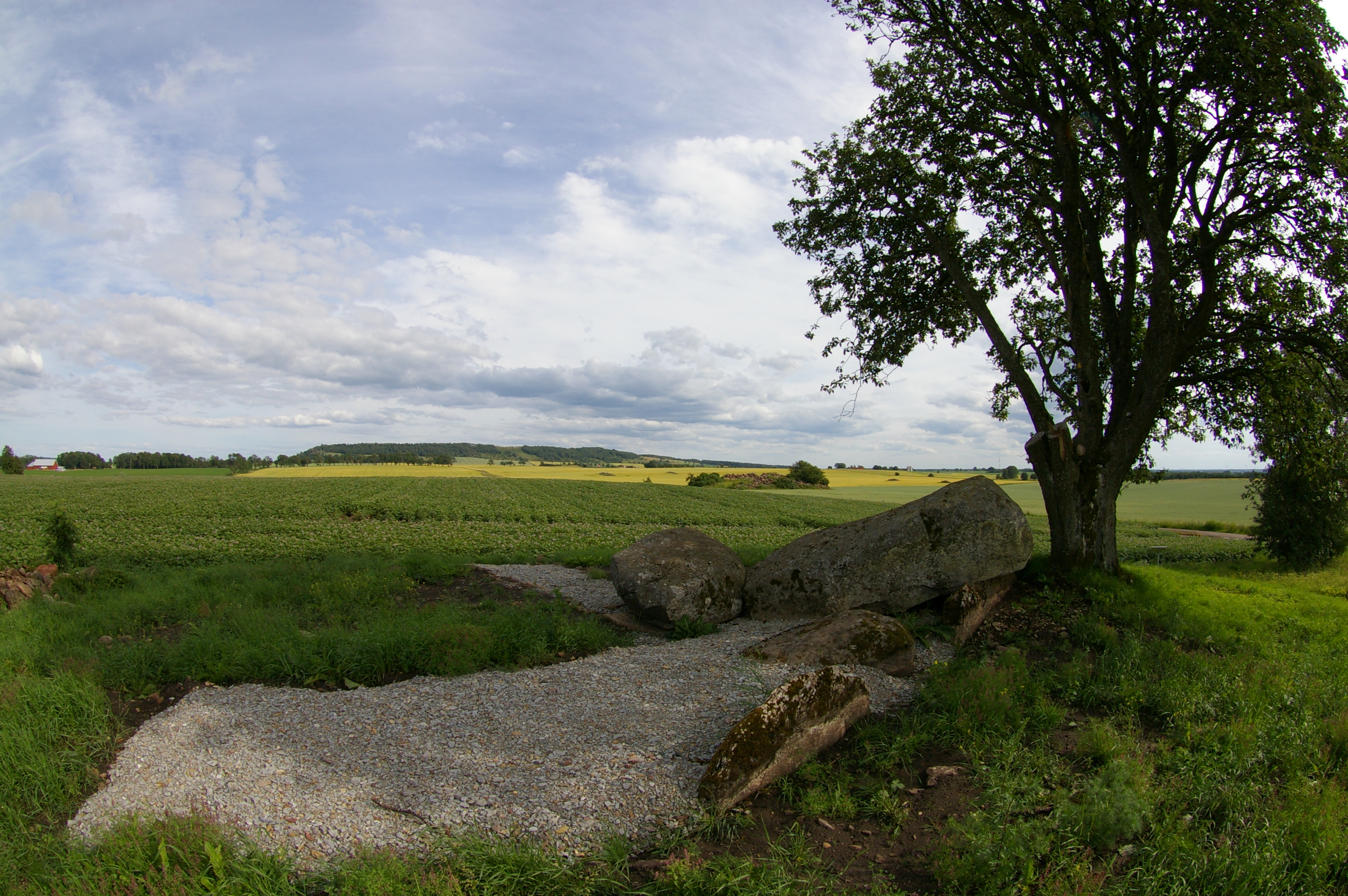 Firse sten or Fisse sten is a passage grave outside Falköping in Västergötland, Sweden. The passage grave was partly excavated in September 2008.